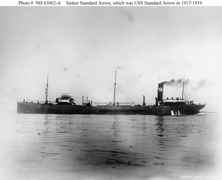 American commercial tanker SS Standard Arrow, probably prior to her 1917-1919 United States Navy service as USS Standard Arrow (ID-1532)